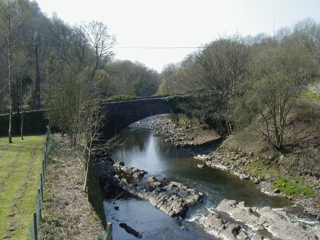 Old Pontamman road bridge. The original Pontamman road, now disused (taken from the new road bridge, SN640126)